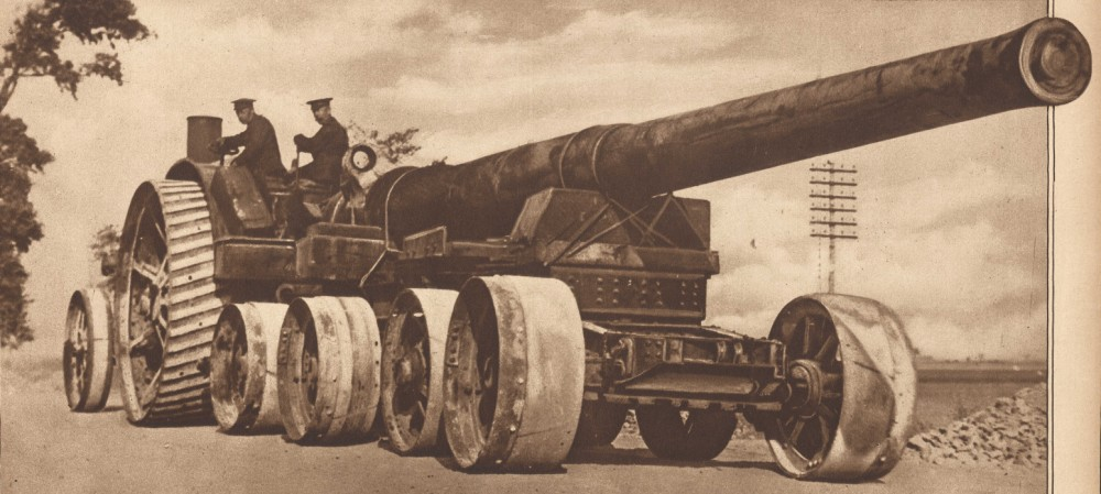 Photograph of a British heavy naval gun being moved on special trailer, Western Front. New York Times caption of 18 January 1918 reads : "Battery of British heavy field pieces and their crews on the roadside near Neuville Vitasse, British West Front." The caption about Neuville Vitasse (S.E. of Arras) would be for propaganda and deception purposes. In fact the gun appears to be a BL 7.5 inch Mk III naval gun from the decommissioned battleship HMS Swiftsure (1903), being moved into position along the coast in Flanders, 1917. It is being towed by a 105 horsepower Daimler-Foster tractor, and is on an 8-wheeled truck designed by Admiral Sir Reginald Bacon for moving 12 inch naval gun carriages, and built by Foster's.